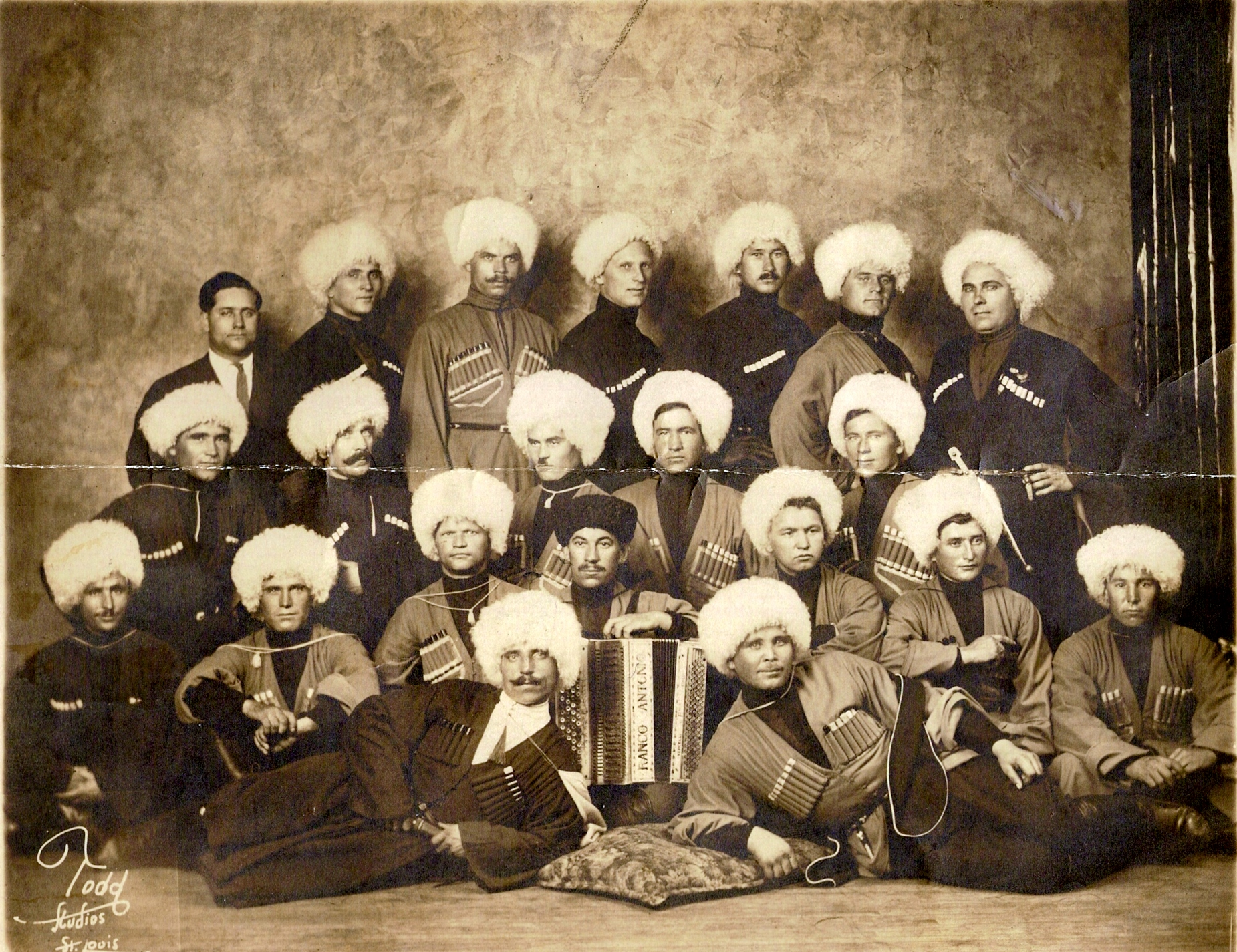 A Family Portrait of Cossacks